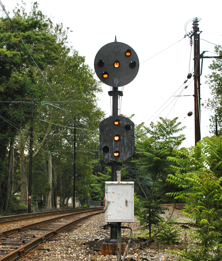 Signal 18R at OVERBROOK interlocking displaying Approach Medium for a movement west on #2 track.